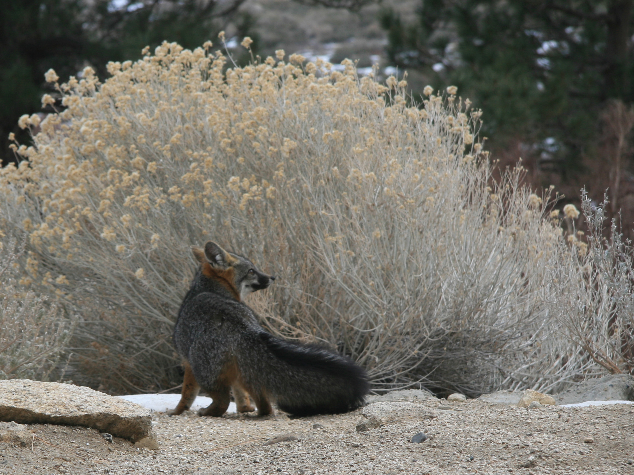 Urocyon cinereoargenteus (gray fox) at 7000ft in Eastern Sierras, in front of rabbitbrush. Turning around, bushy tail with black stripe to camera.